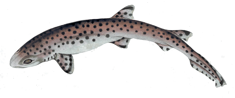 « Scyllum maculatum » = Atelomycterus marmoratus (Coral catshark)